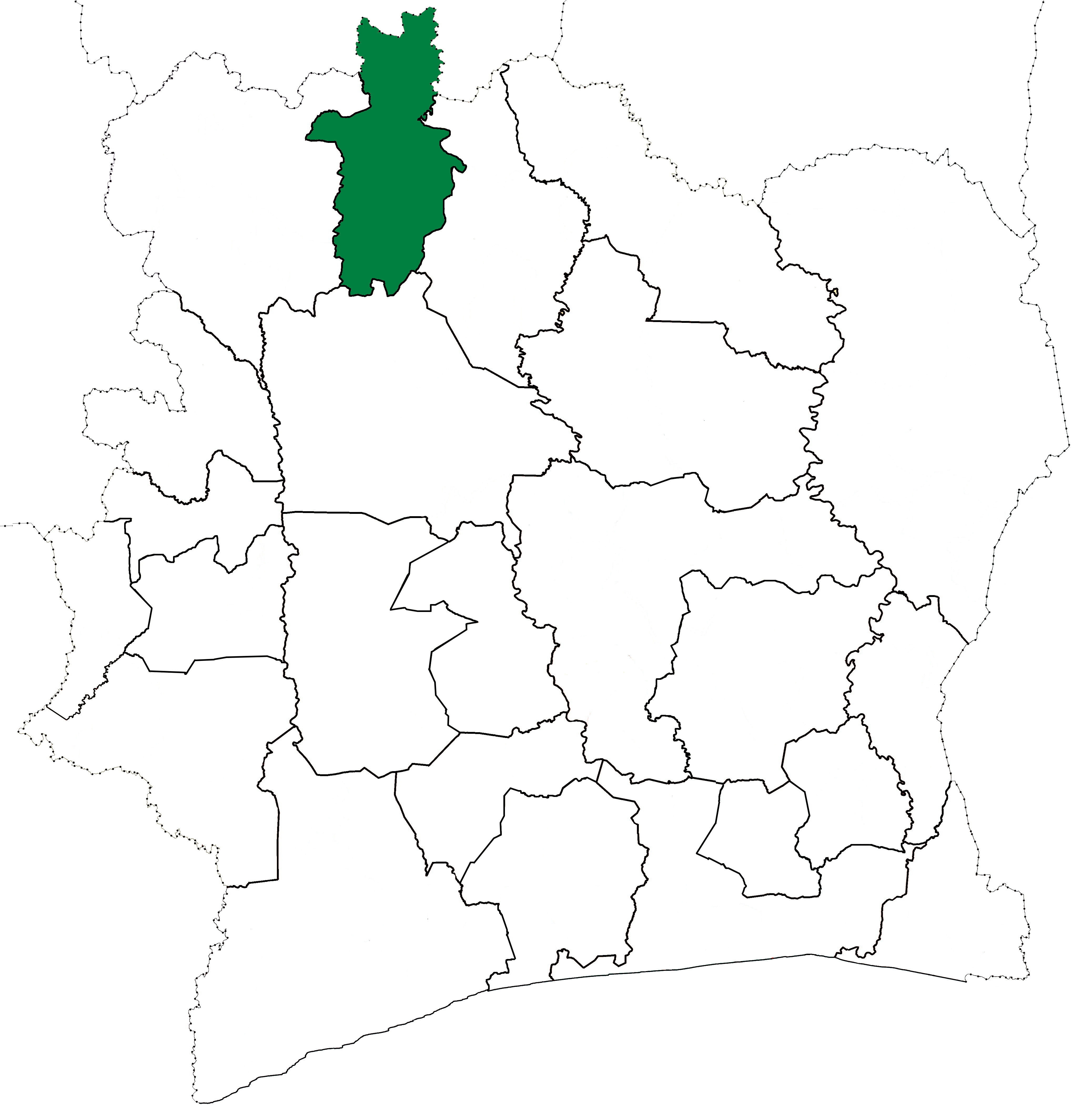 Locator map for Boundiali Department in Côte d'Ivoire when the 24 new departments were created in 1969. Boundilali Department kept these boundaries until 1980, but other departments began to be divided in 1974.